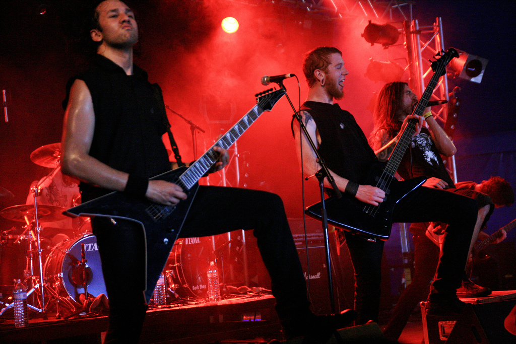 A picture of the band Job for a Cowboy, during Hellfest Summer Open Air in 2008. I (User:Hervegirod) made this picture myself. The original is on my flickr home page, which states this image is my own work.